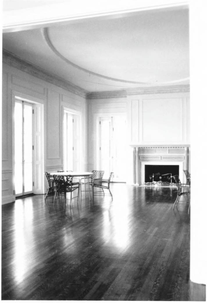 partial view of living room of Boxhill (Louisville) mansion.